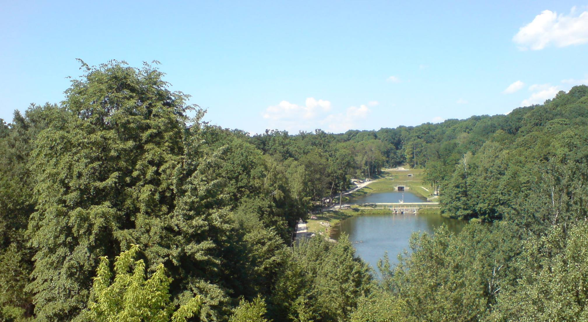 Feofania: a park and monastery in Kiev